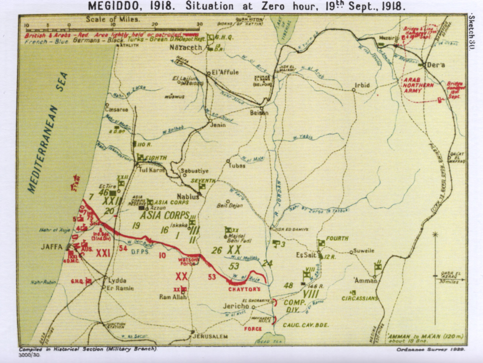 Battle of Megiddo. Sketch Map 30 Megiddo positions of armies at zero hour, 19 September 1918.